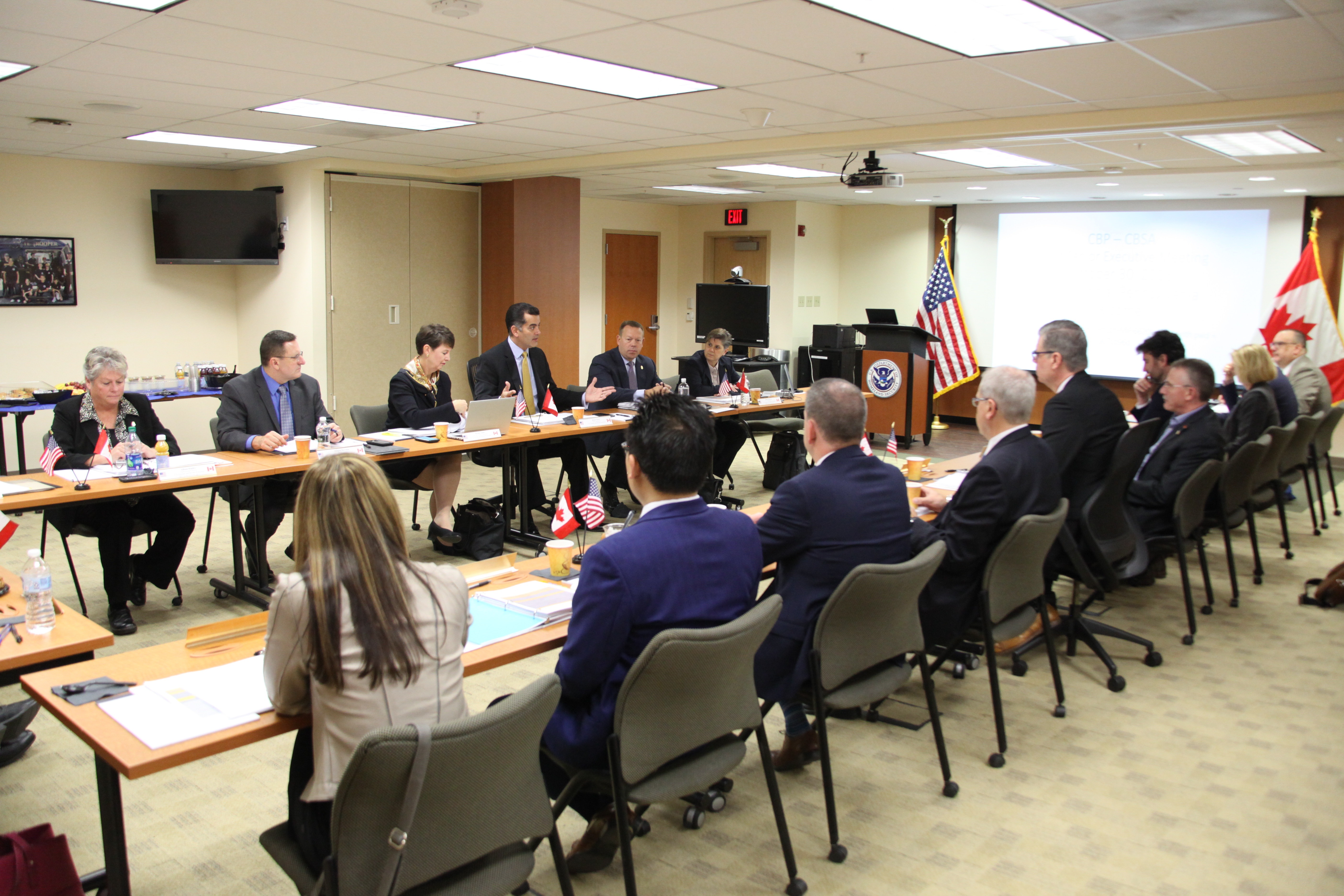 Robert E. Perez, Acting Deputy Commissioner for U.S. Customs and Border Protection (CBP).speaks to key members at the CBP-CBSA Joint Senior Executive meeting; also in attendance was CBSA President John Ossowski and CBSA Vice President Jacques Cloutier. The meet was held at US Custom House on 200 Chestnut street on October 30, 2018. U.S. Customs and Boarder Protection photo.